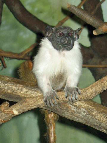 Description: Pied Tamarin - Source: own work - Location: Bronx Zoo, New York - Author: self, User:Stavenn